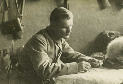 Finnish Red Guard commander Heikki Kaljunen (1893-1938).